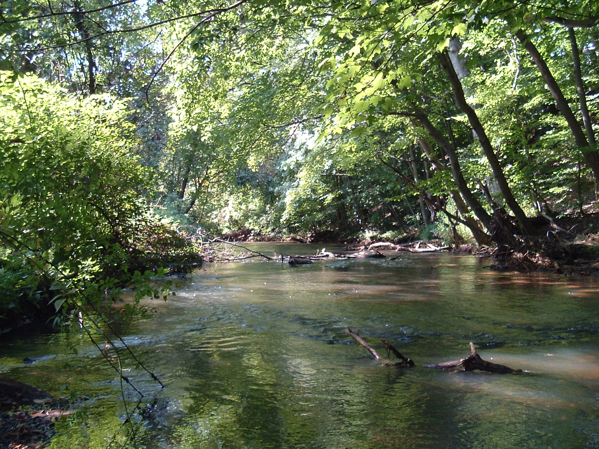 South Branch Big Timber Creek, Blackwood, Gloucester Township, Camden County, New Jersey creek stream river waterway